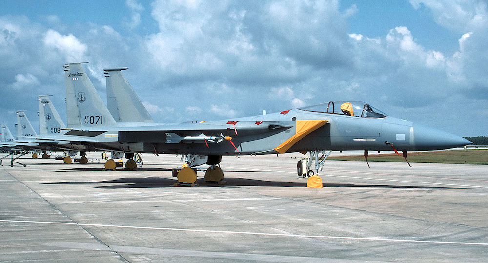 122d Fighter Squadron - McDonnell Douglas F-15A-18-MC Eagle 77-0711 Aircraft retired to AMARC as FH0149 Jan 29, 2007. Still on AMARC inventory Jan 15, 2008.